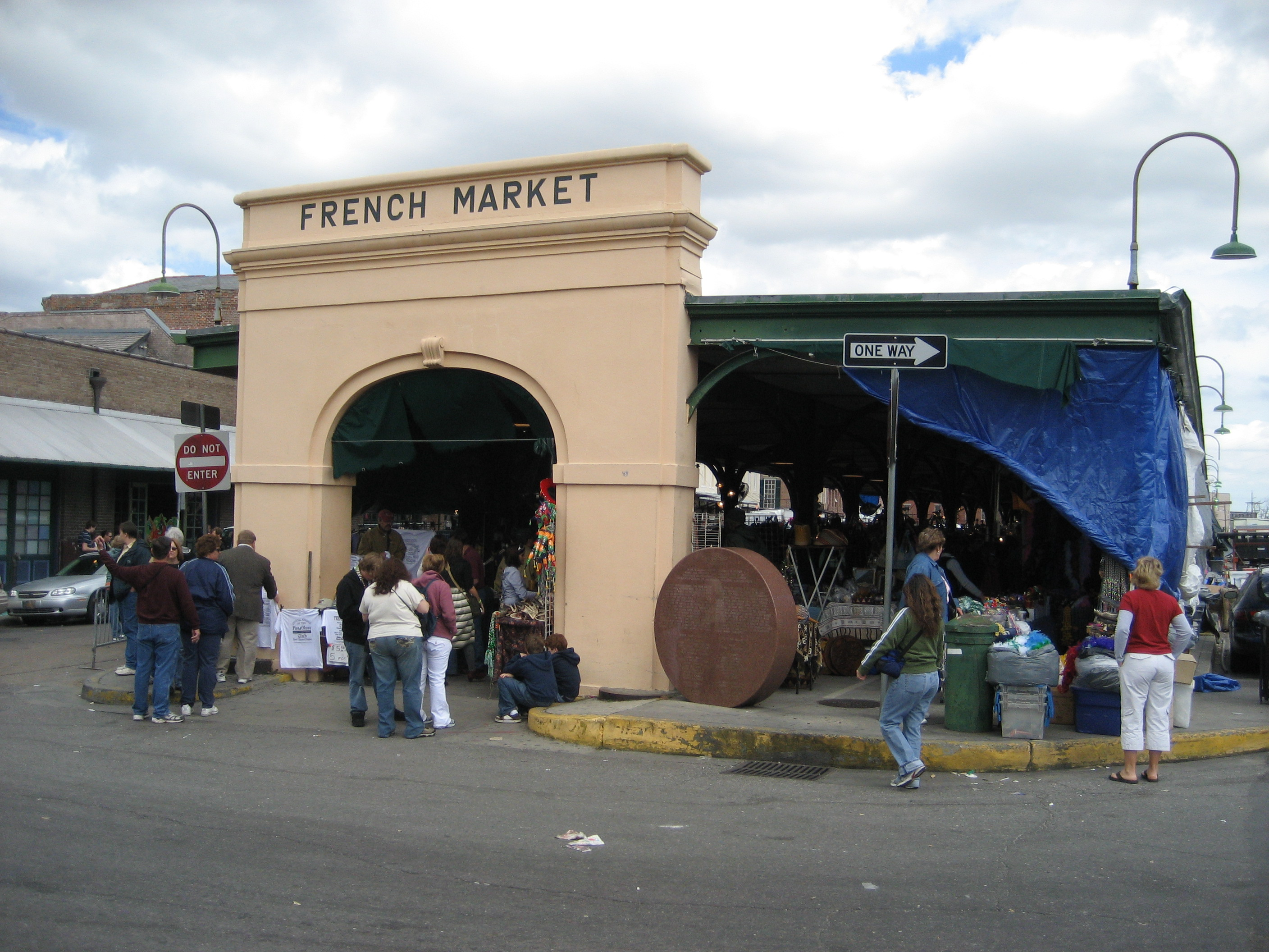 French Market archway, New Orleans French Quarter